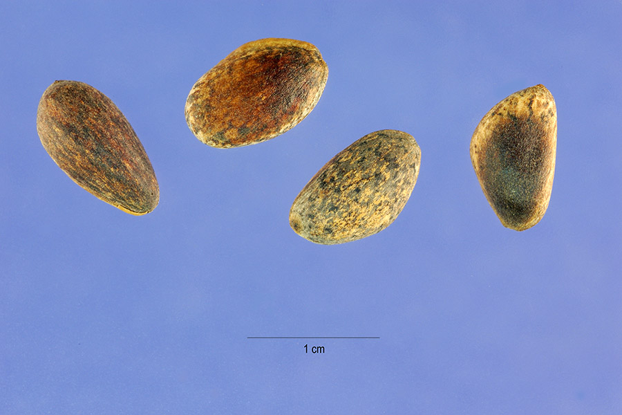 Seeds of Jeffrey Pine (Pinus jeffreyi)